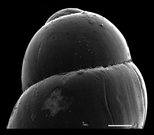 SEM image of apex of paratype of Gulella streptostelopsis. Scale bar is in 0.1 mm.